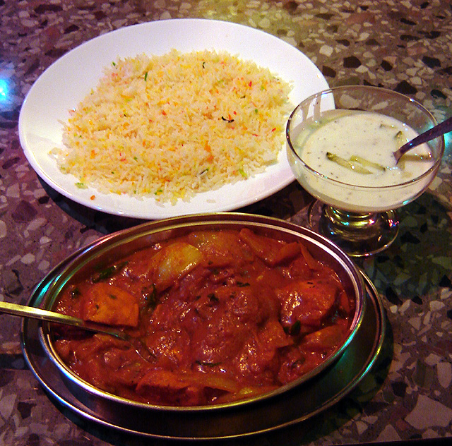 Chicken Tikka Jalfrezi, Pilau Rice, Cucumber Raita. The Aladin Restaurant, Brick Lane, Tower Hamlets, London. 28 November 2005. Photographer: Fin Fahey.